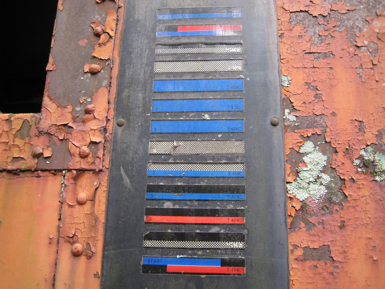 KarTrak code on a caboose, shot at Petrified Forest, Flora, Summer 2010 by Quinn Rossi